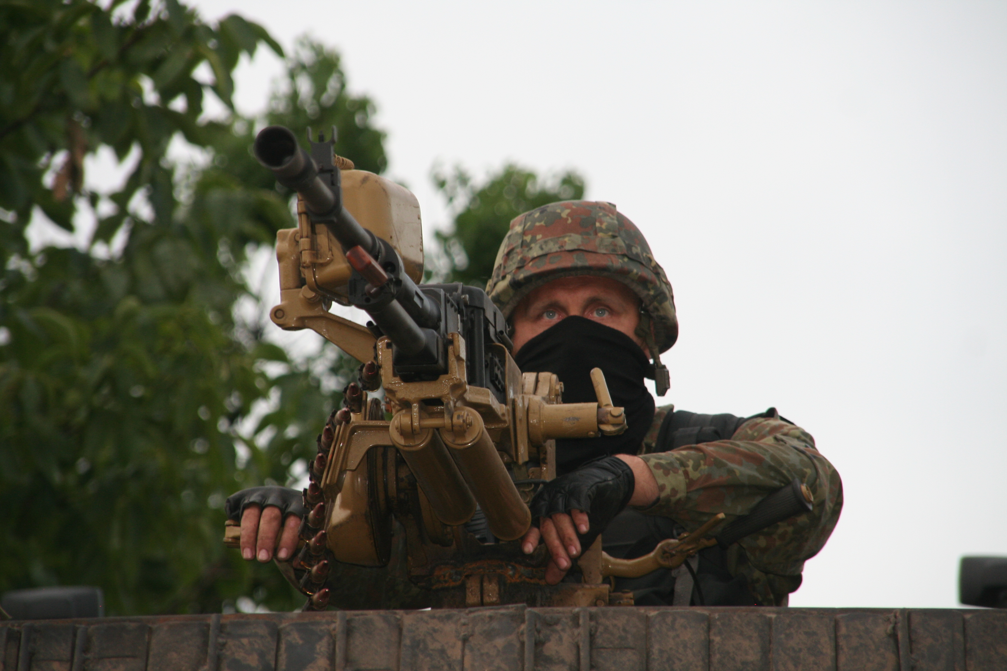 A soldier of the Azov Battalion mans a heavy machine gun on a patrol near Mariupol.